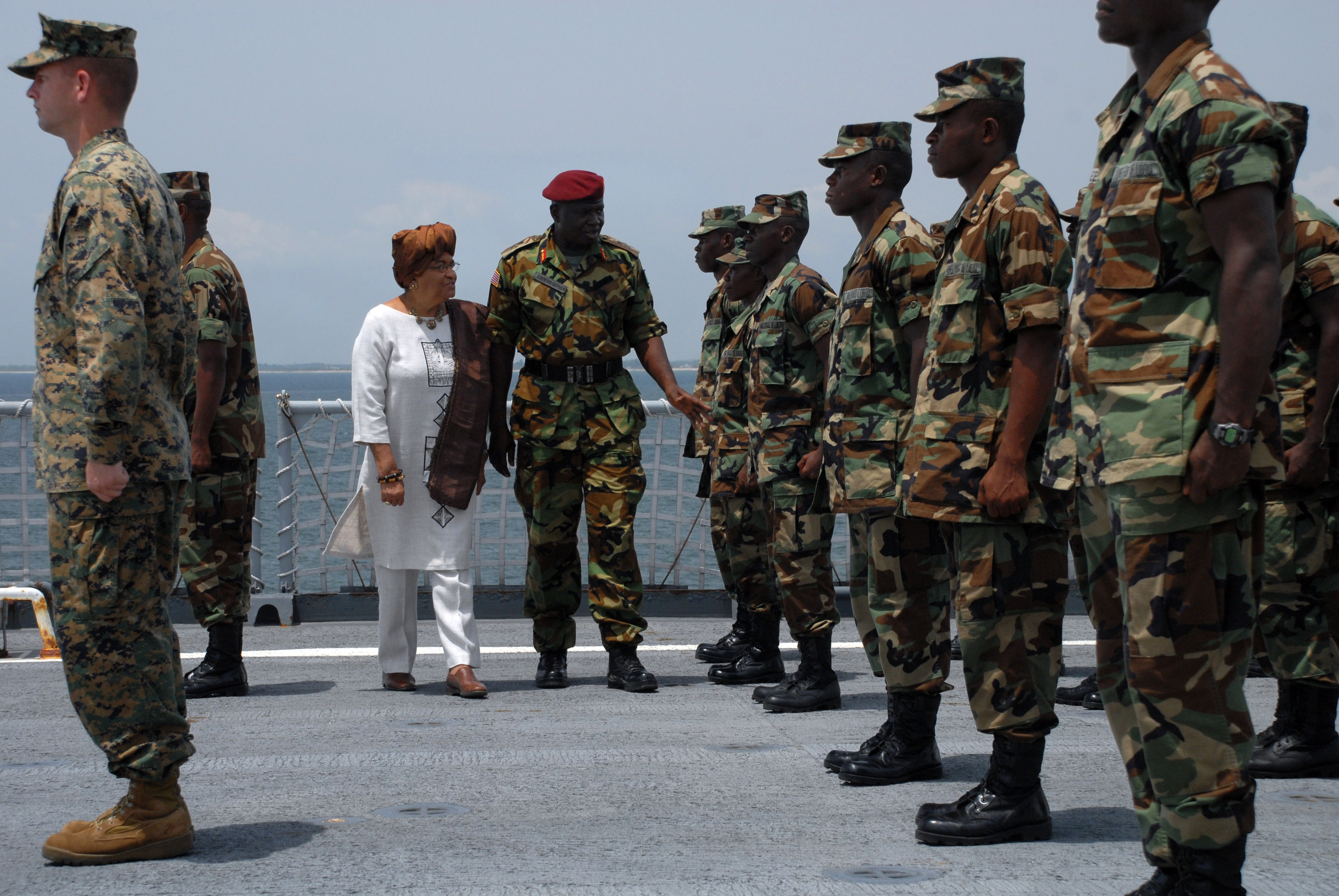 Ellen Johnson-Sirleaf, president of Liberia, congratulates graduates of the Armed Forces of Liberia March 27, 2008, in Monrovia, Liberia, who have been participating in Africa Partnership Station classes aboard the amphibious dock landing ship USS Fort McHenry (LSD 43). The graduates completed courses in leadership and martial arts.